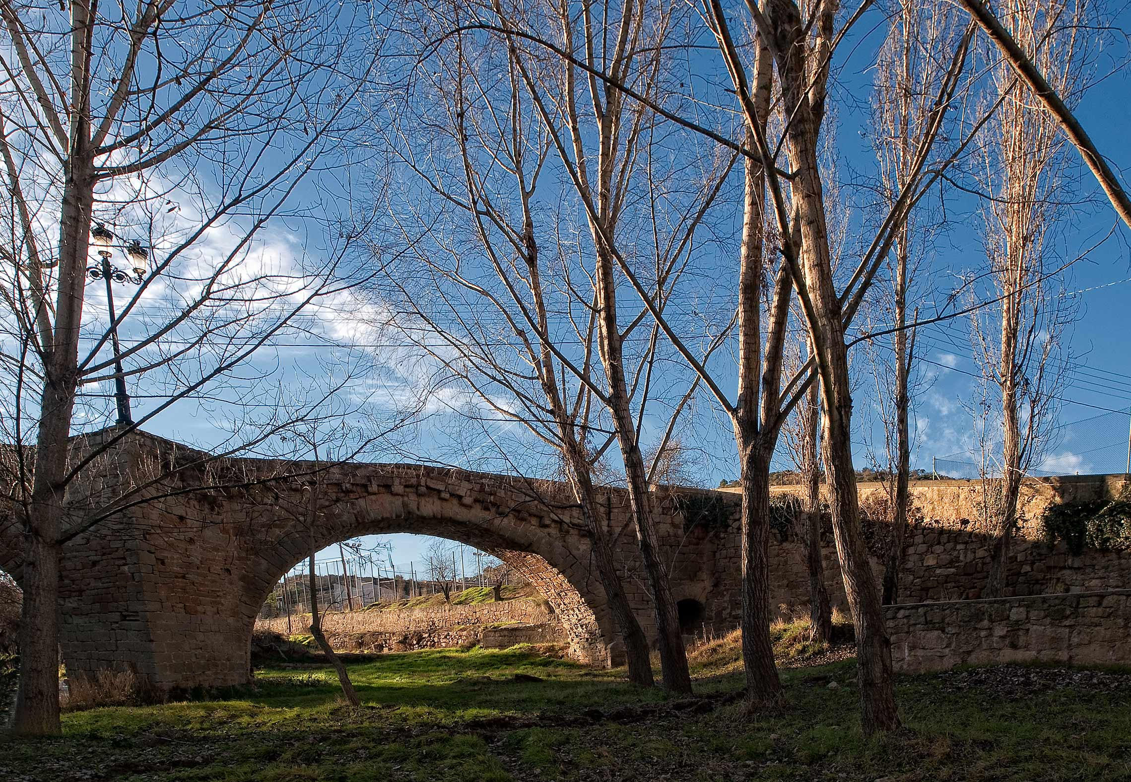 Medieval bridge of Sanauja (Catalonia, Spain)